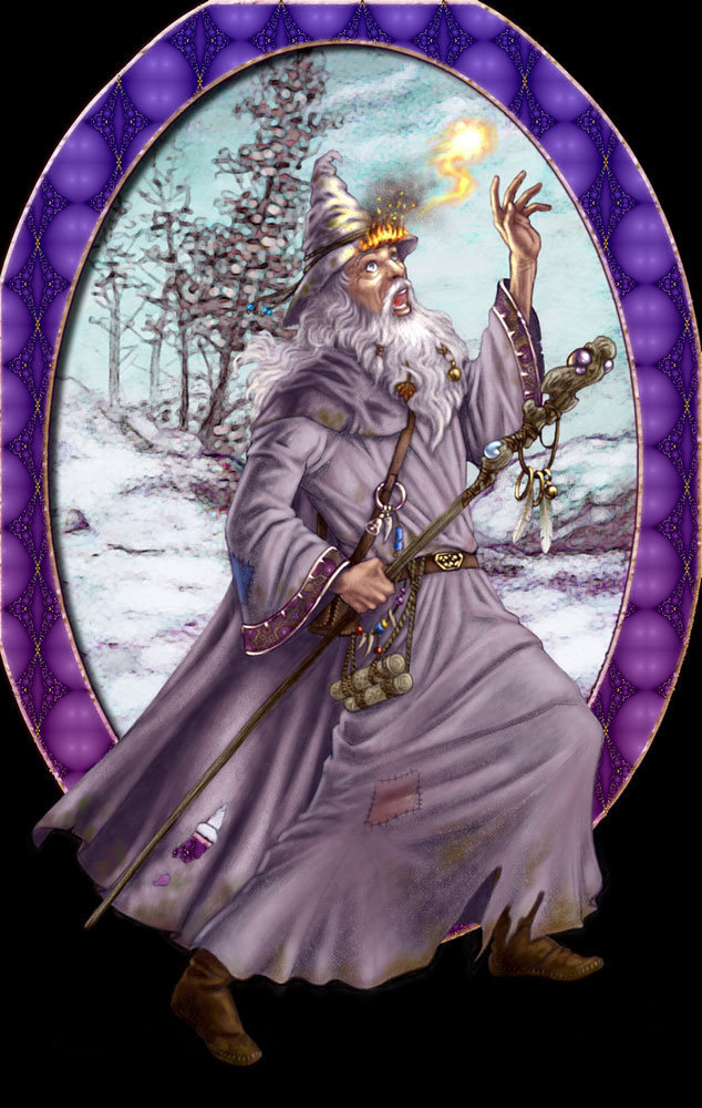 Fizban The Fabulous. Image by Vera Gentinetta.